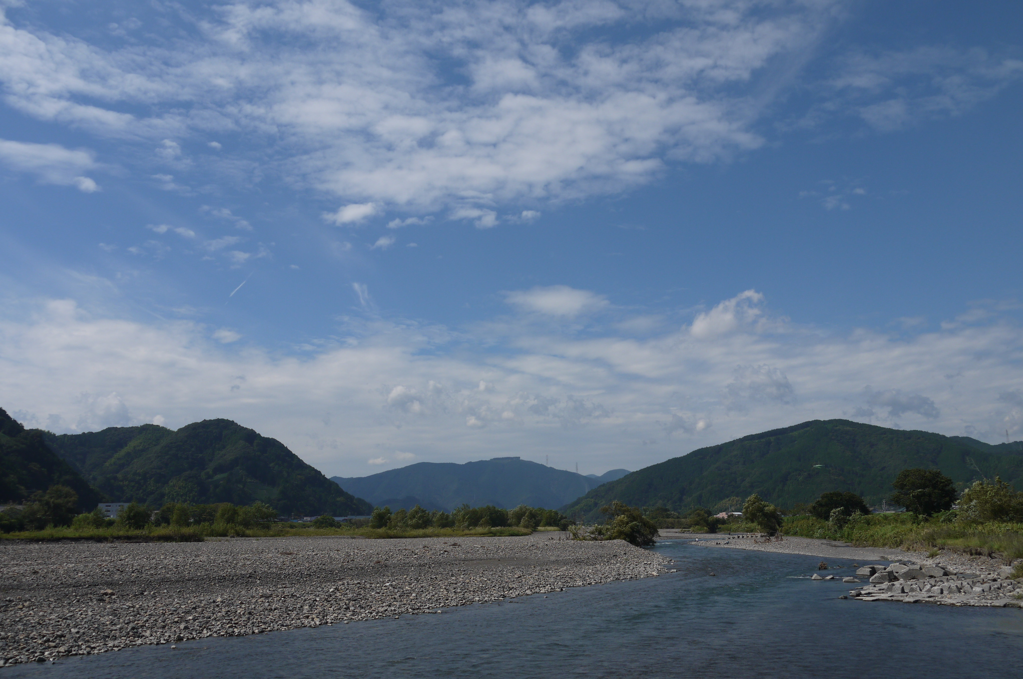 Warashina River in Shizuoka.